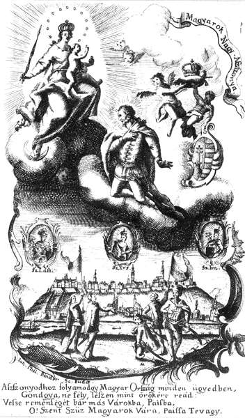 Stephen offers Hungary for Mary; City view of Buda as of 1763